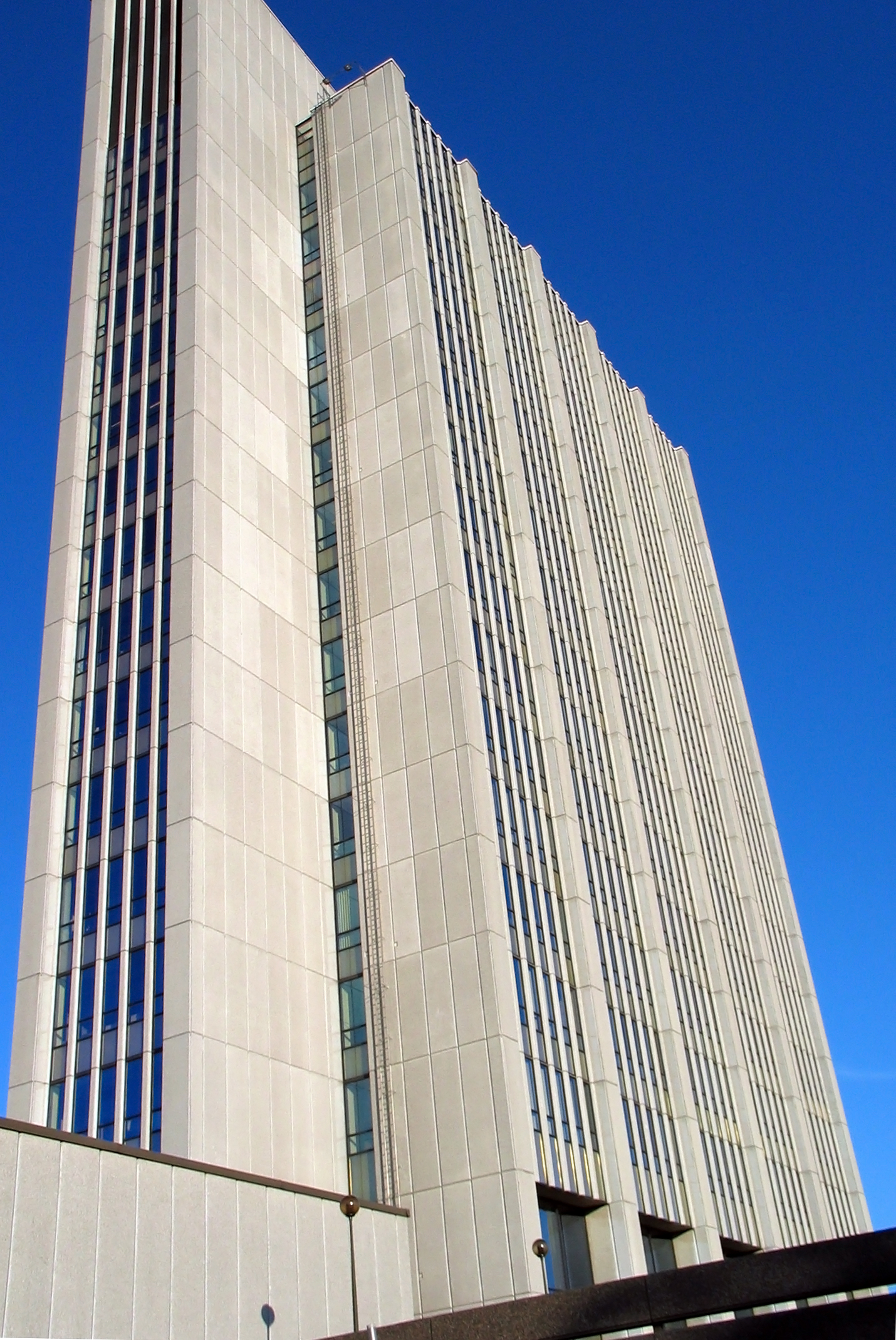 Fortum headquarters building in Keilalahti, Espoo, Finland.